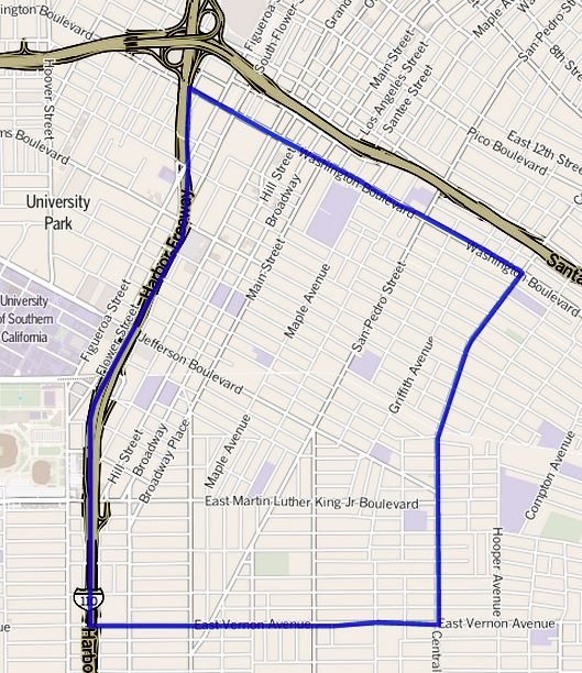 Map of the Historic South Central neighborhood of Los Angeles, California, as drawn by the Los Angeles Times. Historic South Central Los Angeles Other information Boundary map as drawn by the Los Angeles Times on a CC-by-SA background. Note at bottom right of map on the L.A. Times website noted above says "CC-by-SA" (which gives permission to use the map). There is a link there to which explains the meaning thereof. The base map is credited to The Times spells all this out at